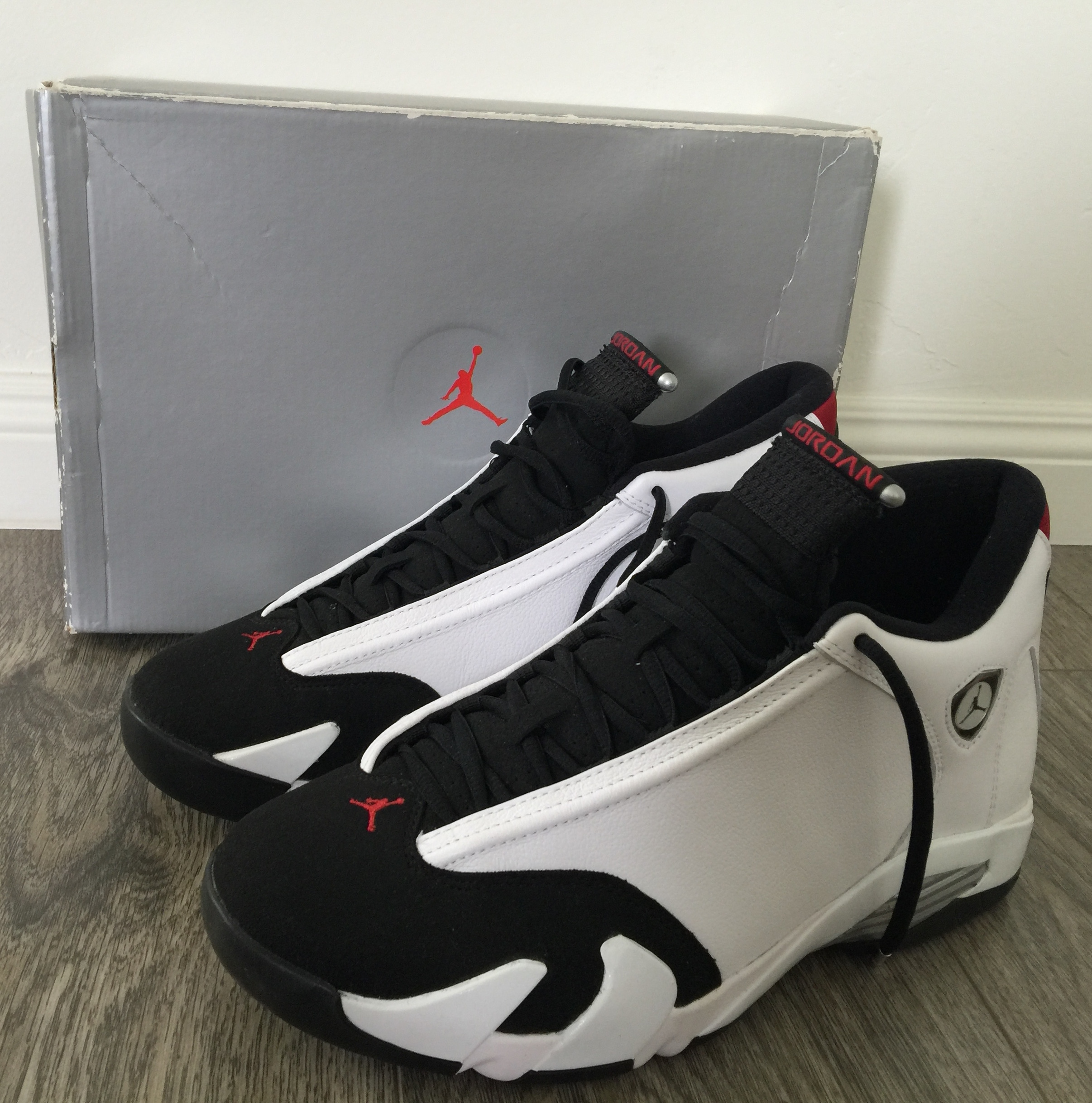 Nike Air Jordan XIV (Black Toe Colorway)